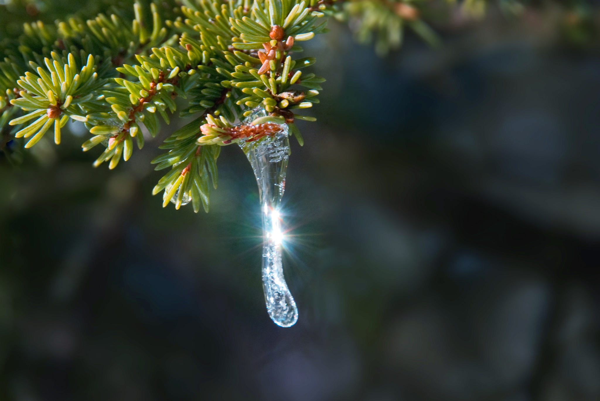 Icicles on a tree